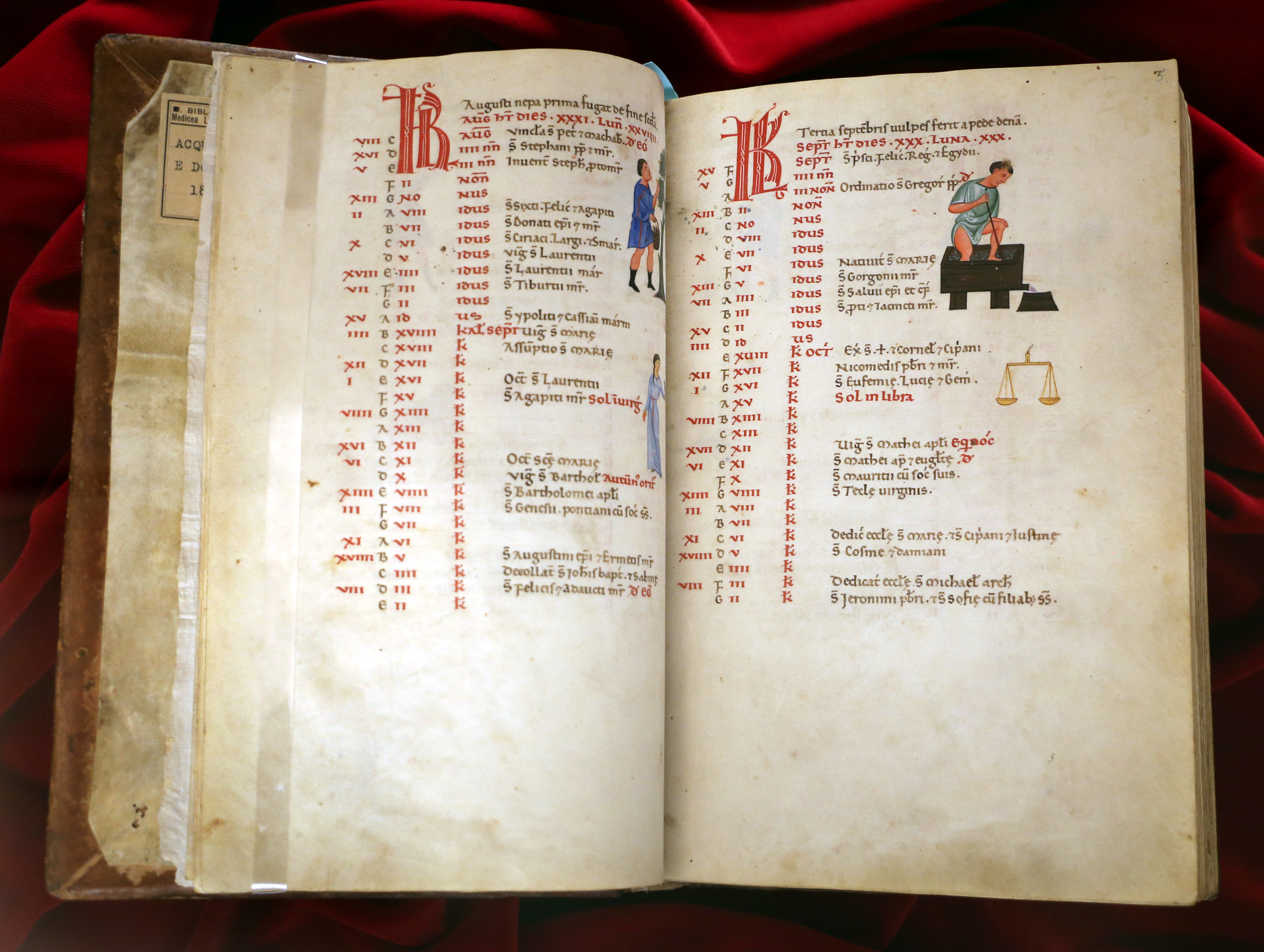 Biblioteca Medicea Laurenziana manuscripts